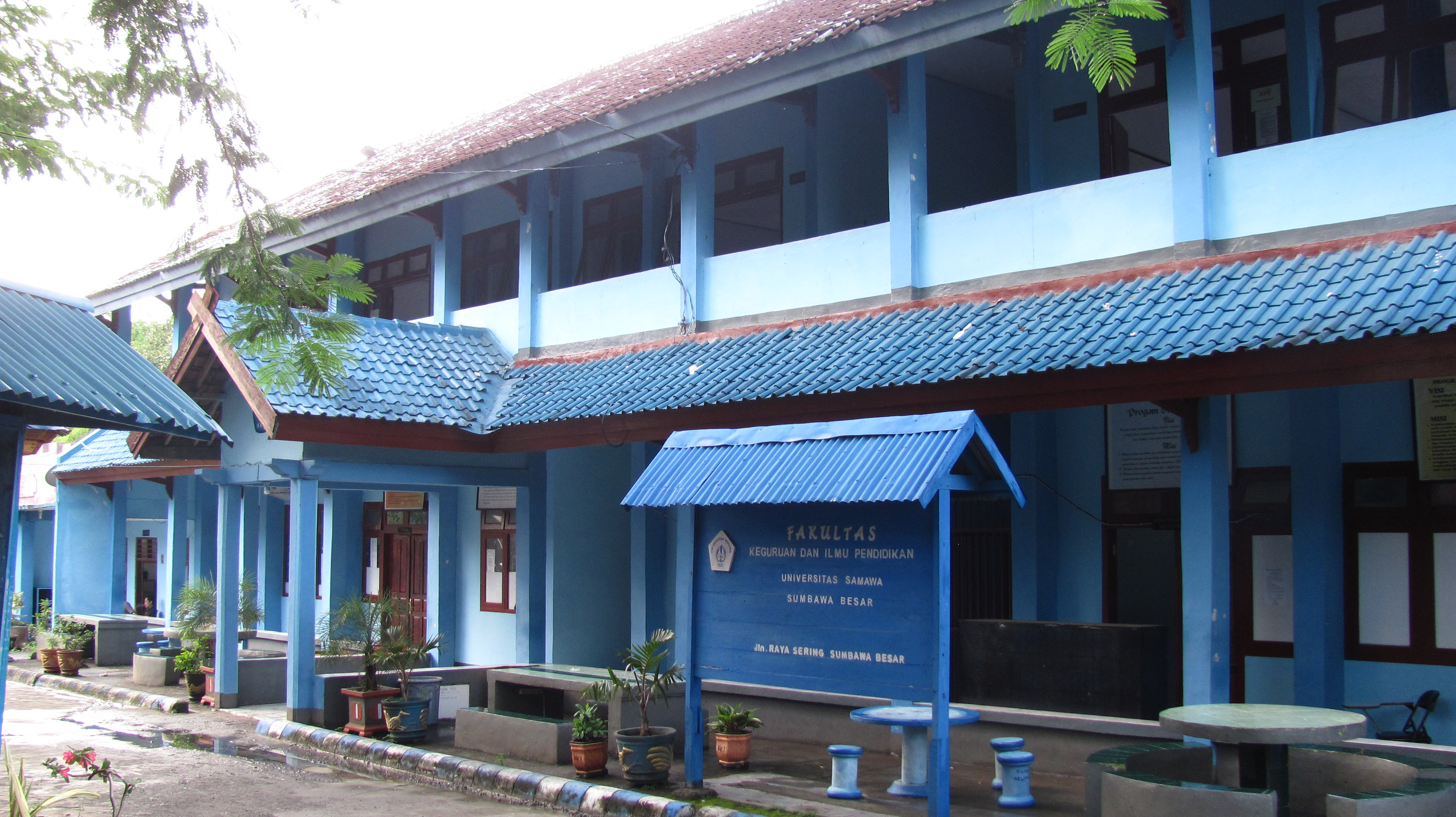 University of Sumbawa Besar, Sumbawa Island, Indonesia